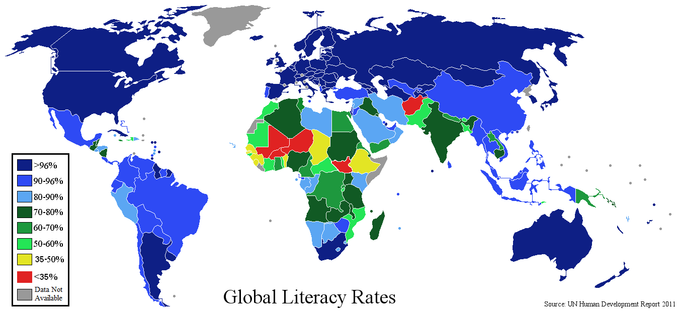 A map of literacy around the world. Created using statistics from the UN Human Development Report 2011. Several countries improved from 2007/2008. The most notable changes were in Africa where countries with rates in the 30-40% group changed to 50-60%.